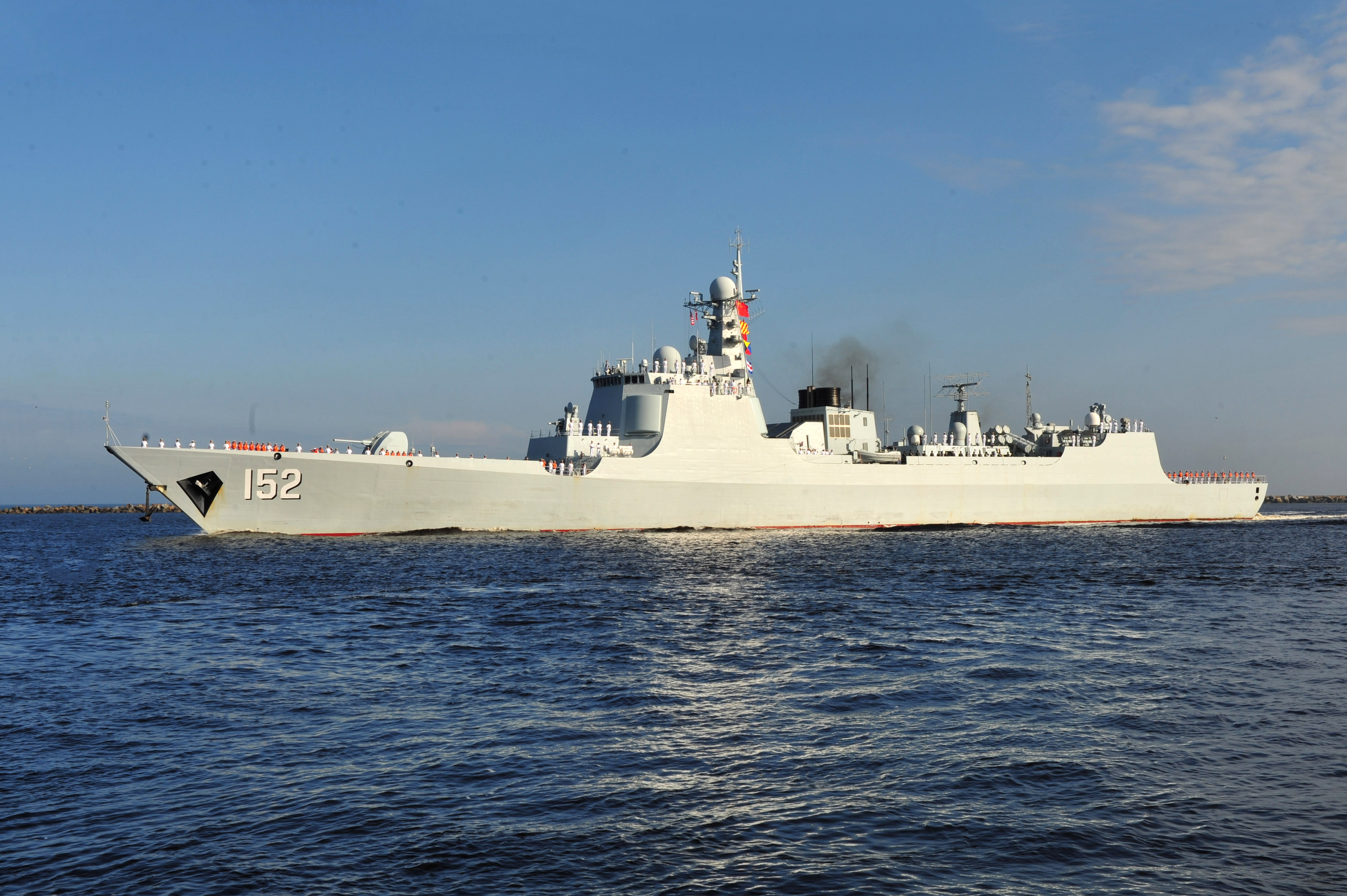 151103-N-JX484-058 MAYPORT, Fla. (Nov. 3, 2015) The Chinese Luyang II-class destroyer Jinan (DDG 152) arrives into Naval Station Mayport as part of a routine goodwill port visit. Foreign navy ships routinely conduct port visits to Mayport. Engagements like this demonstrate a continuous navy-to-navy bilateral relationship between our two countries. (U.S. Navy photo by Mass Communication Specialist 3rd Class Mark Andrew Hays/Released)